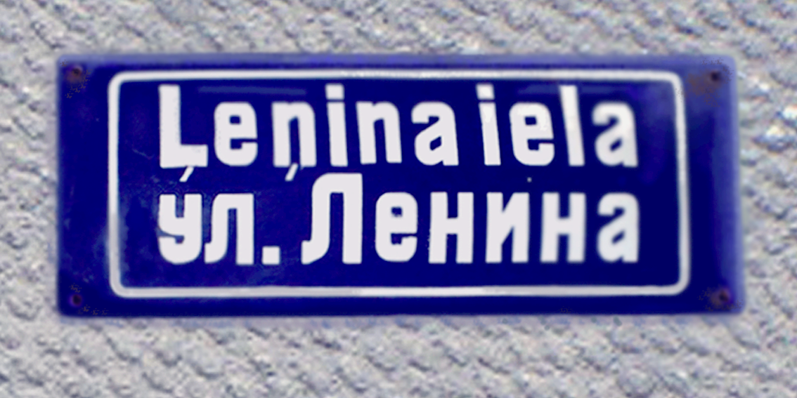 Street sign. "Lenin street". Riga (1991). Brivibas Street.